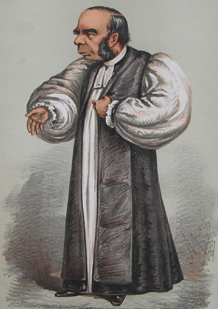 Caricature of William Connor Magee (1821-1891), Anglican Bishop of Peterborough. Caption read "If eloquence could justify injustice, he would have saved the Irish Church".